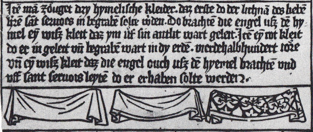 Detail of a souvenir engraving for the 7-yearly pilgrimages (Heiligtumsfahrt) of Maastricht, Aachen and Kornelimünster, printed in Mainz or the Middle Rhine Area in 1468(?). The engraving shows the main relics in these three towns, that were shown to the pilgrims once in seven years around the same time. Paper, 27,5 x 37,5 cm. Collection: Staatliche Graphische Sammlung, Munich.